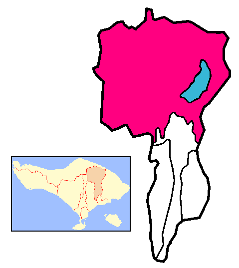 Kintamani in Bangli